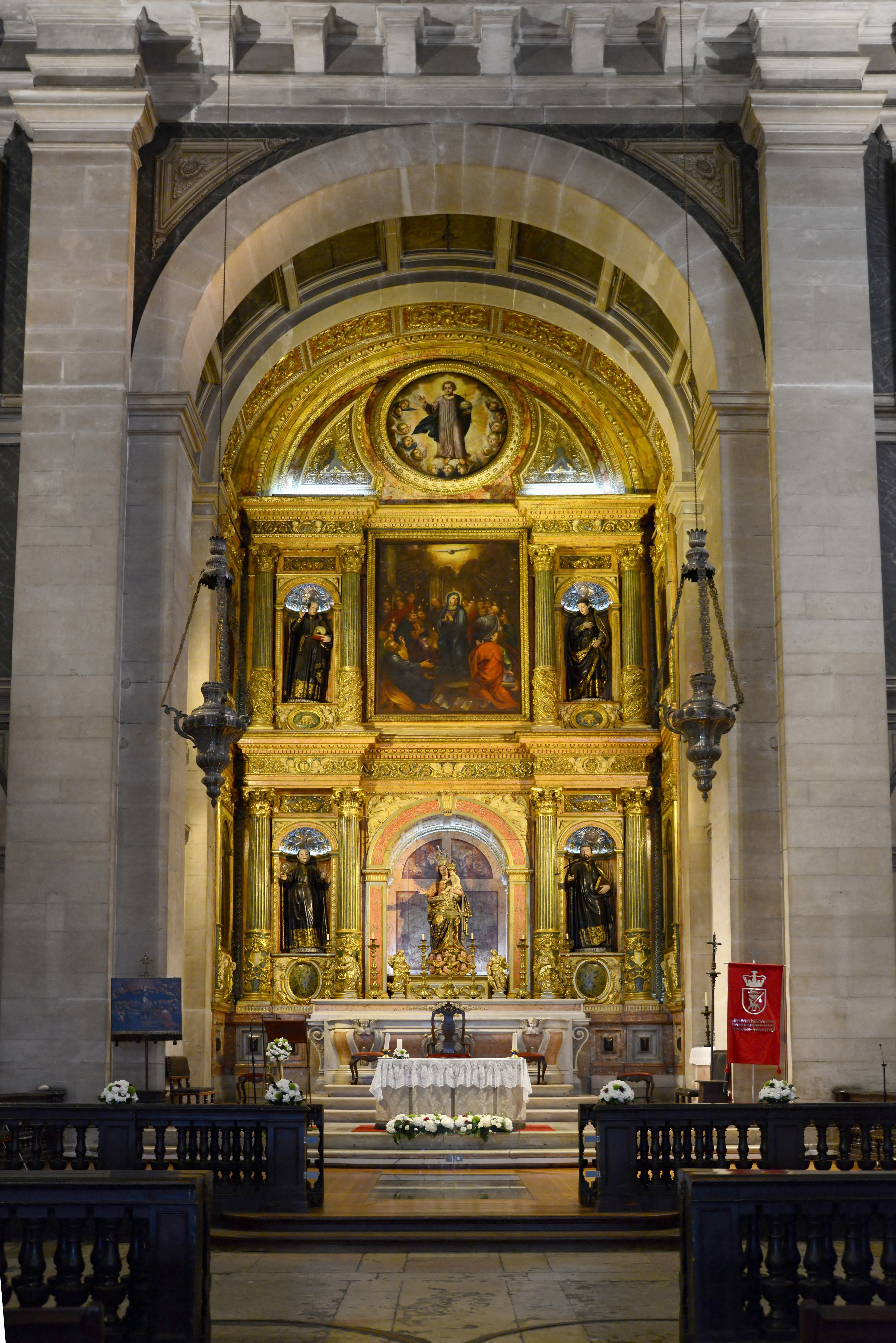 Main altar of the Church of São Roque, Lisbon